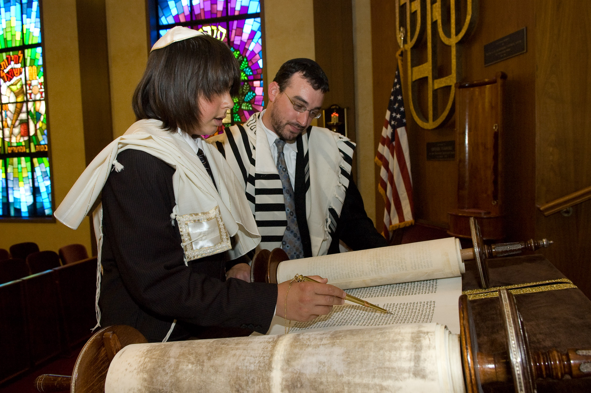 Jewish boy reading a Torah scroll at his Bar Mitzvah, using a Torah pointer.